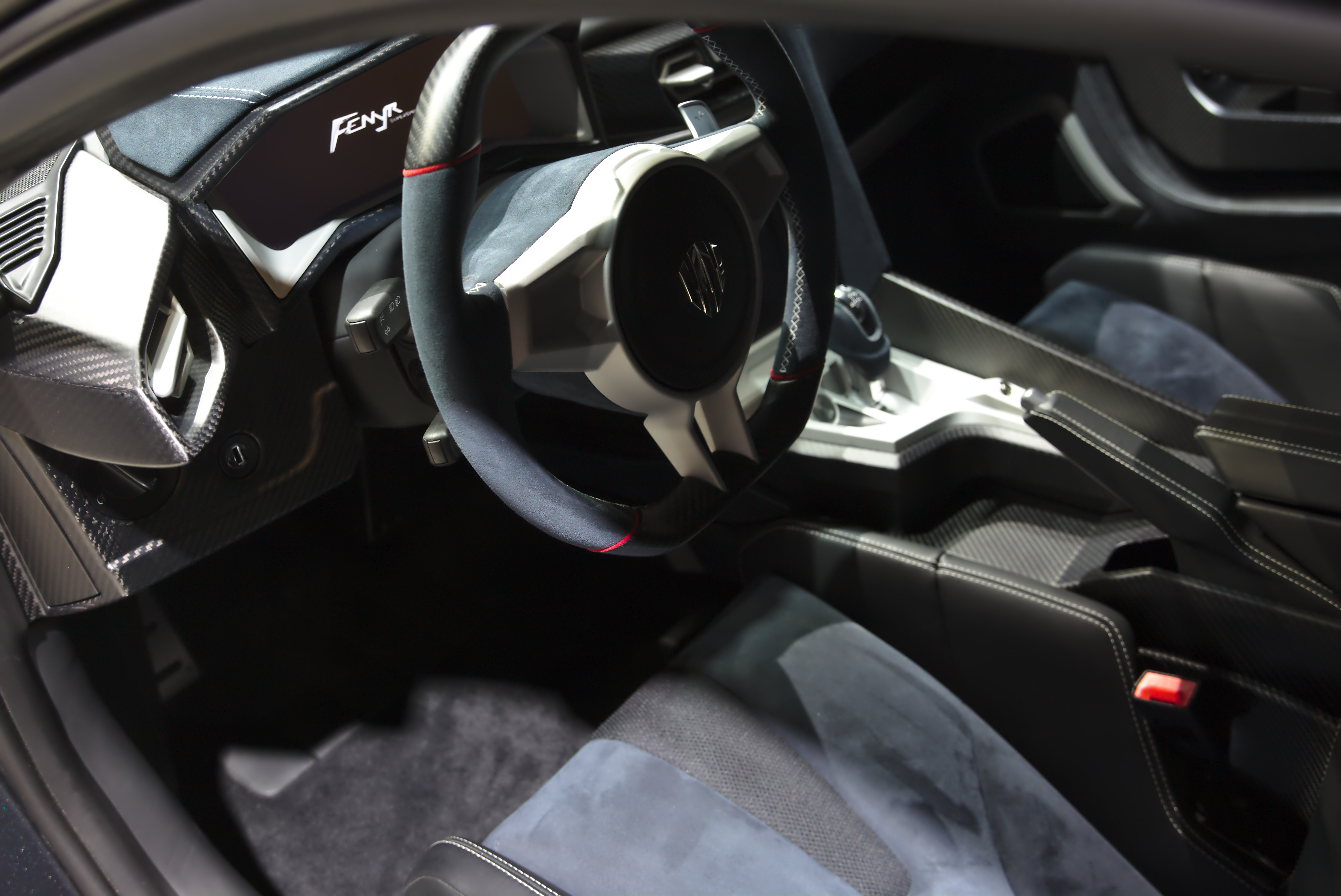 Fenyr Supersport at Geneva Motorshow 2018